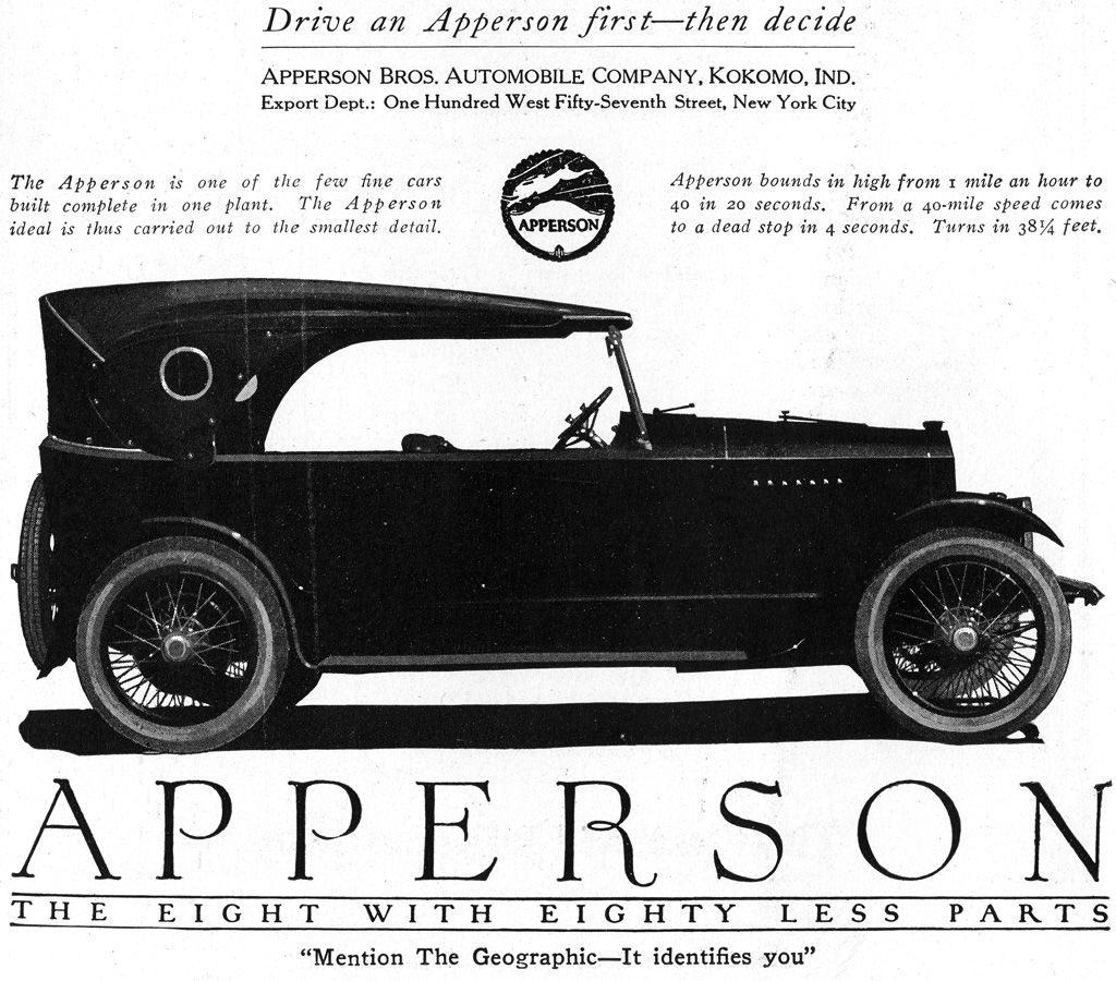 1920 Apperson advert., in September 1920 National Geographic.